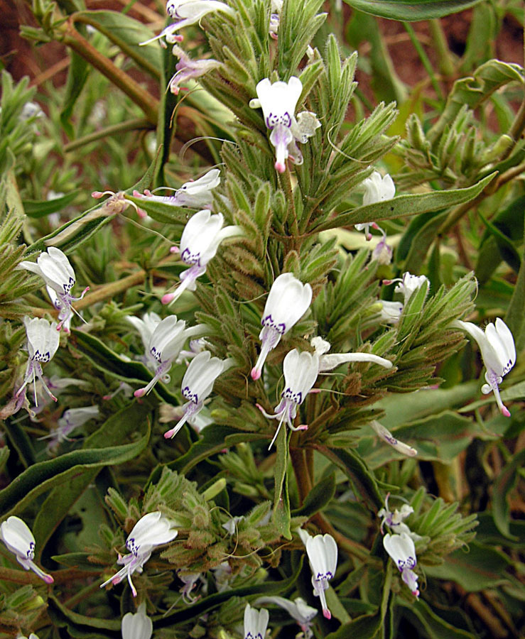 A variable shrub of sub-saharan Africa. Photo from the Kapani River Valley, Malawi.